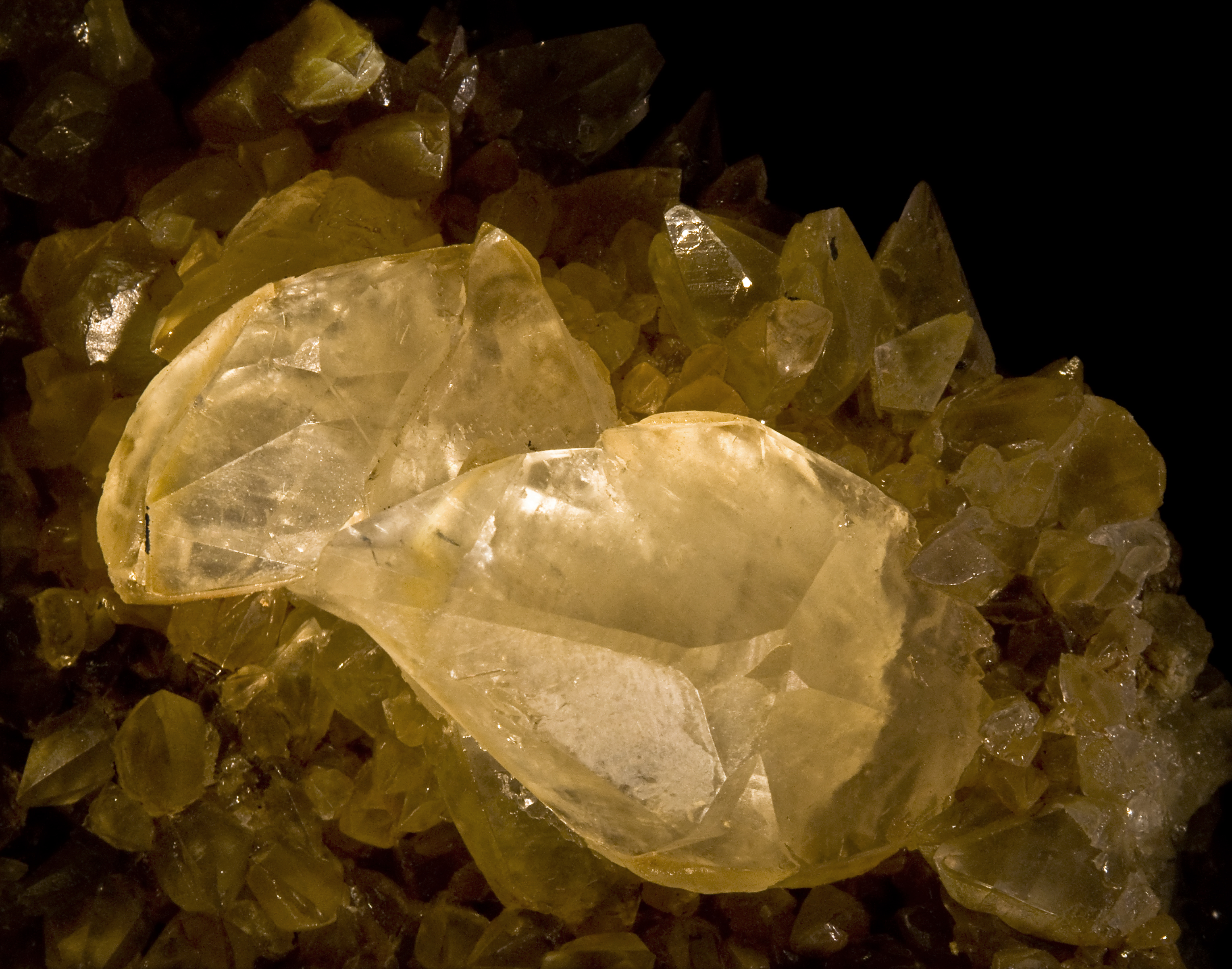 Calcite - Moux quarry, Carcassonne, Aude, Languedoc Rousillon, France (XX5.1x3.2cm)